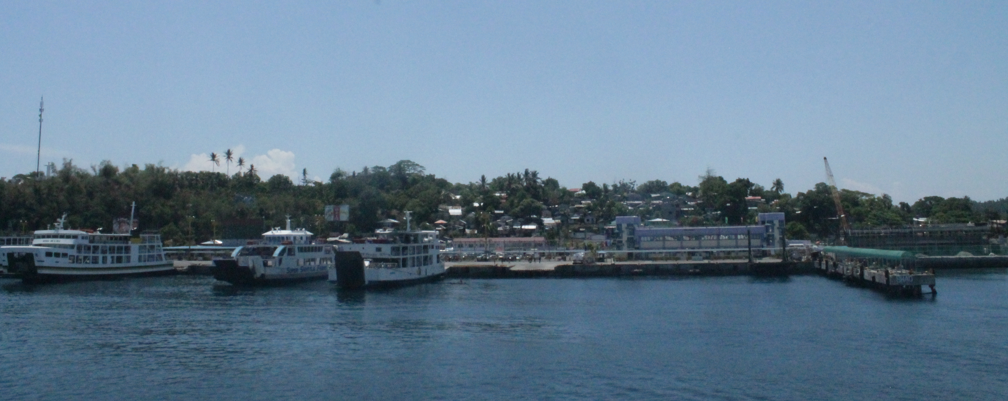 View of Port of Calapan.